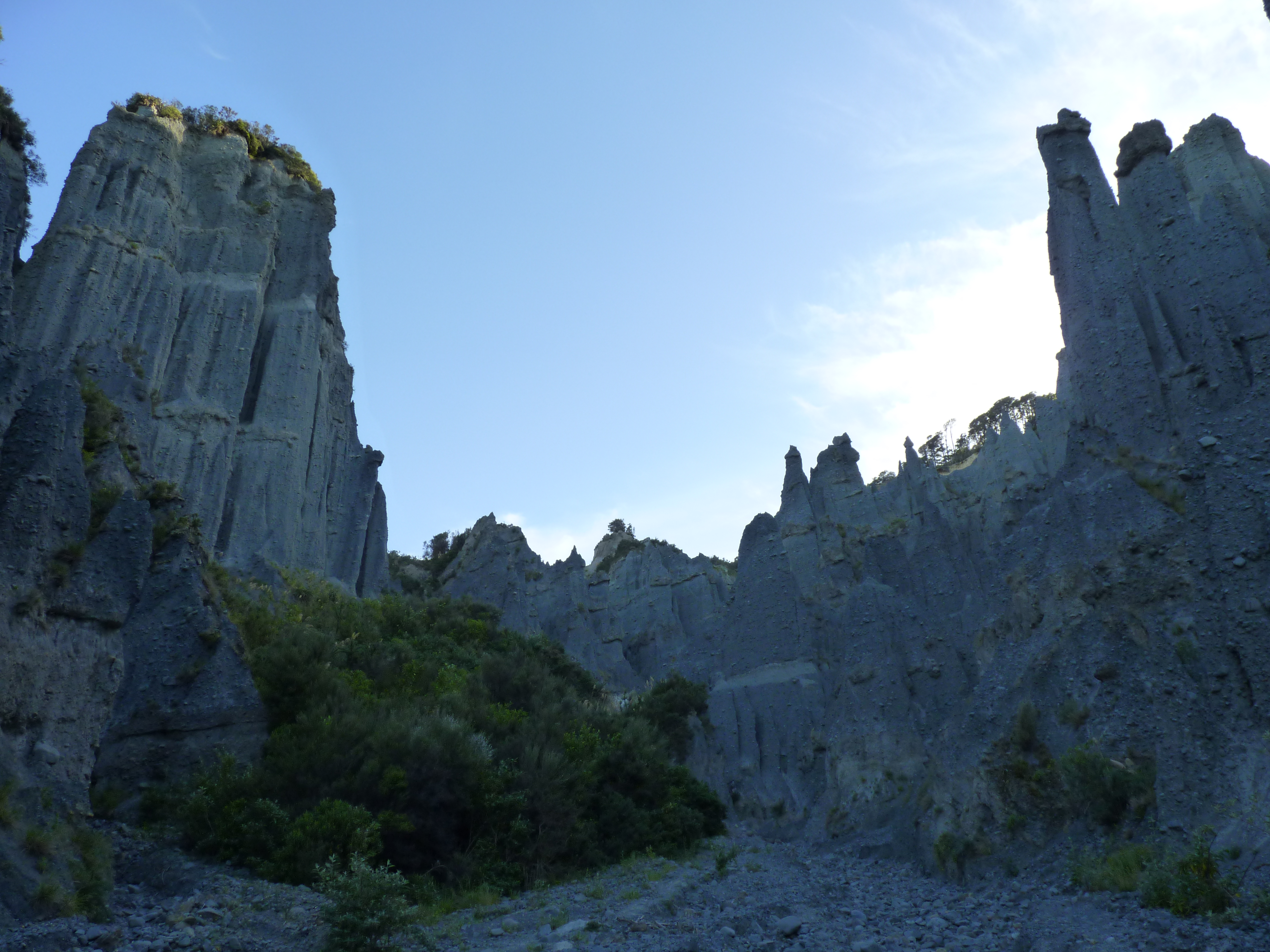 Putangirua Pinnacles, Wellington Region, New Zealand